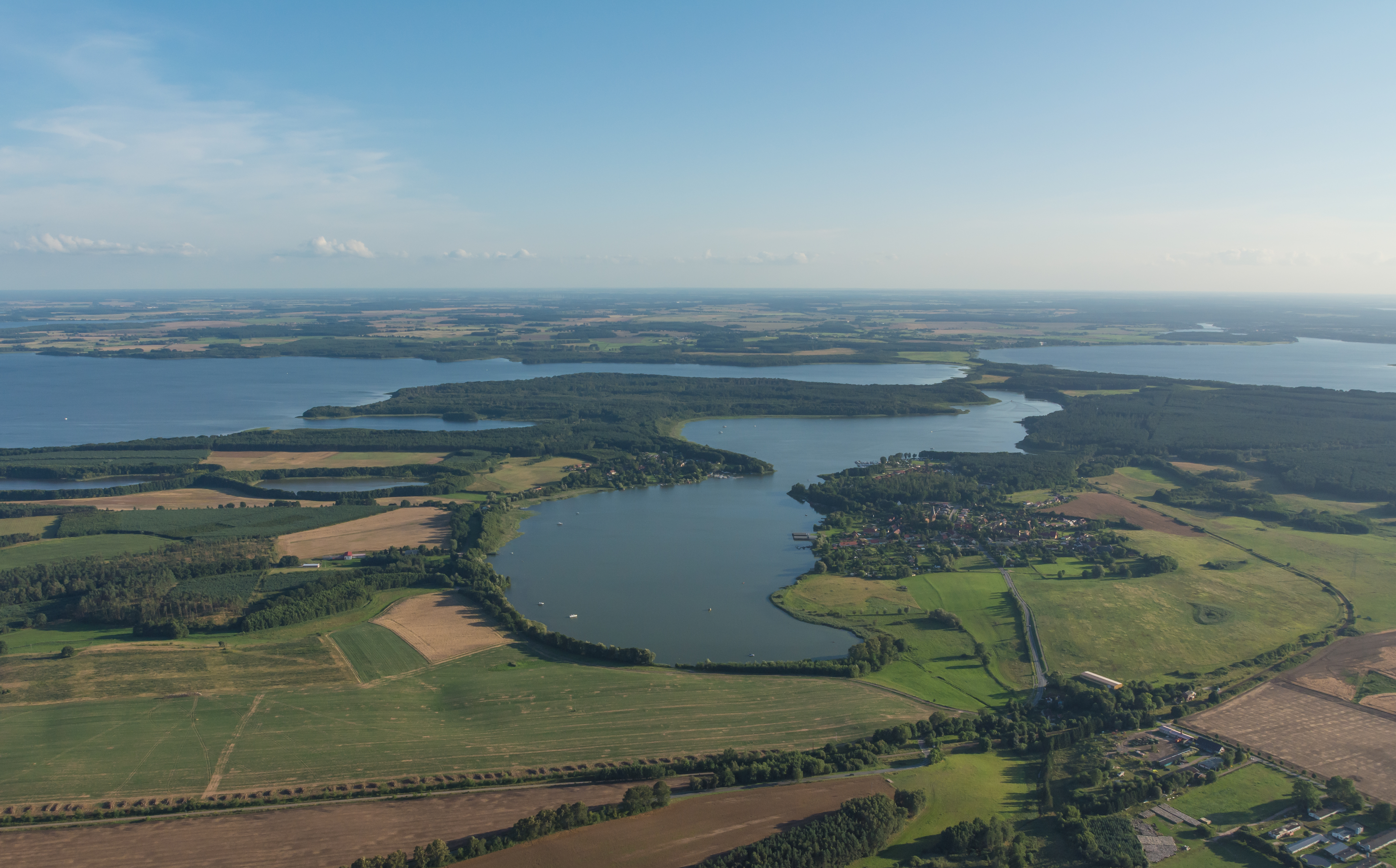 Aerial view of Jabel and surrounding lakes of Mecklenburg Lakeland in Germany: Kölpinsee, Jabelscher See and Fleesensee.